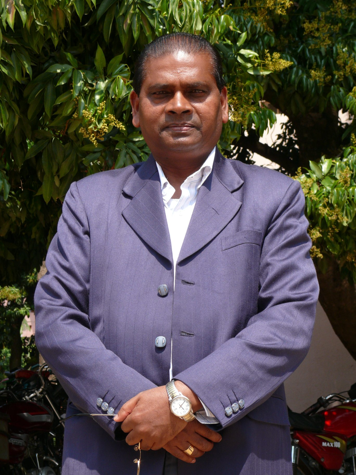 Bishop Paul Alois Lakra of Gumla (Jharkhand, India).